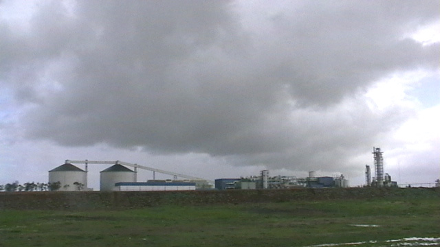 Sugar factory at Sidi Bennour (Doukkala), Morocco Walon: Soucreye di Sidi Bennour (Douccala)